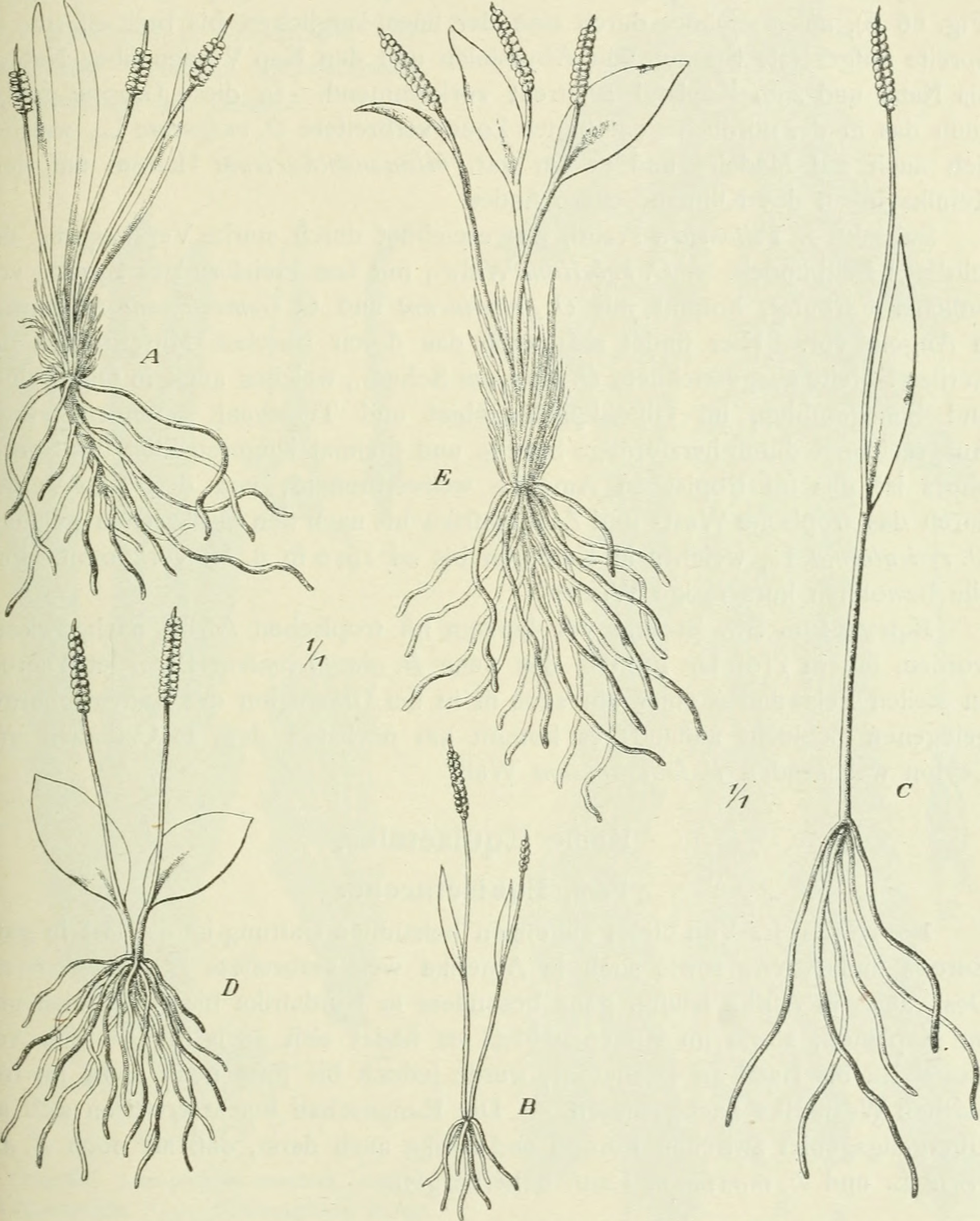 Title: Die Pflanzenwelt Afrikas, insbesondere seiner tropischen Gebiete : Grundzge der Pflanzenverbreitung im Afrika und die Charakterpflanzen Afrikas Year: 1910 (1910s) Authors: Engler, Adolf, 1844-1930 Subjects: Botany Publisher: Leipzig : W. Engelman Text Appearing Before Image: Ophioglossales. — Ophioglossaceae. 69 ganz kleines Pflänzchen mit stielloser, schmal linealer Spreite, welcher am Grunde der Stiel des kurzen Sporangiophors entspringt, sehr selten bei Kap- stadt; 0. grammeuin Willd. (Fig. 67 B mit gemeinsamem Blattstiele und Text Appearing After Image: Fig. 67. A Ophioglossnm Bergianum Schlechtdl.; B O. graminenm Willd.; C O. lusoafricanum Wehv.; D O. Gomezianum Welw.; E O. capense Sw. emend. linealer bis lineal-lanzettlicher, steriler Spreite, und das größere 0. lusoafricanuvi Wehv. (Fig. 67 6^) in Angola (Pungo Andongo); 0. lusitanicum L. erstreckt sich von Westeuropa und dem Mittelmeergebiete bis zu den Kanaren; eine